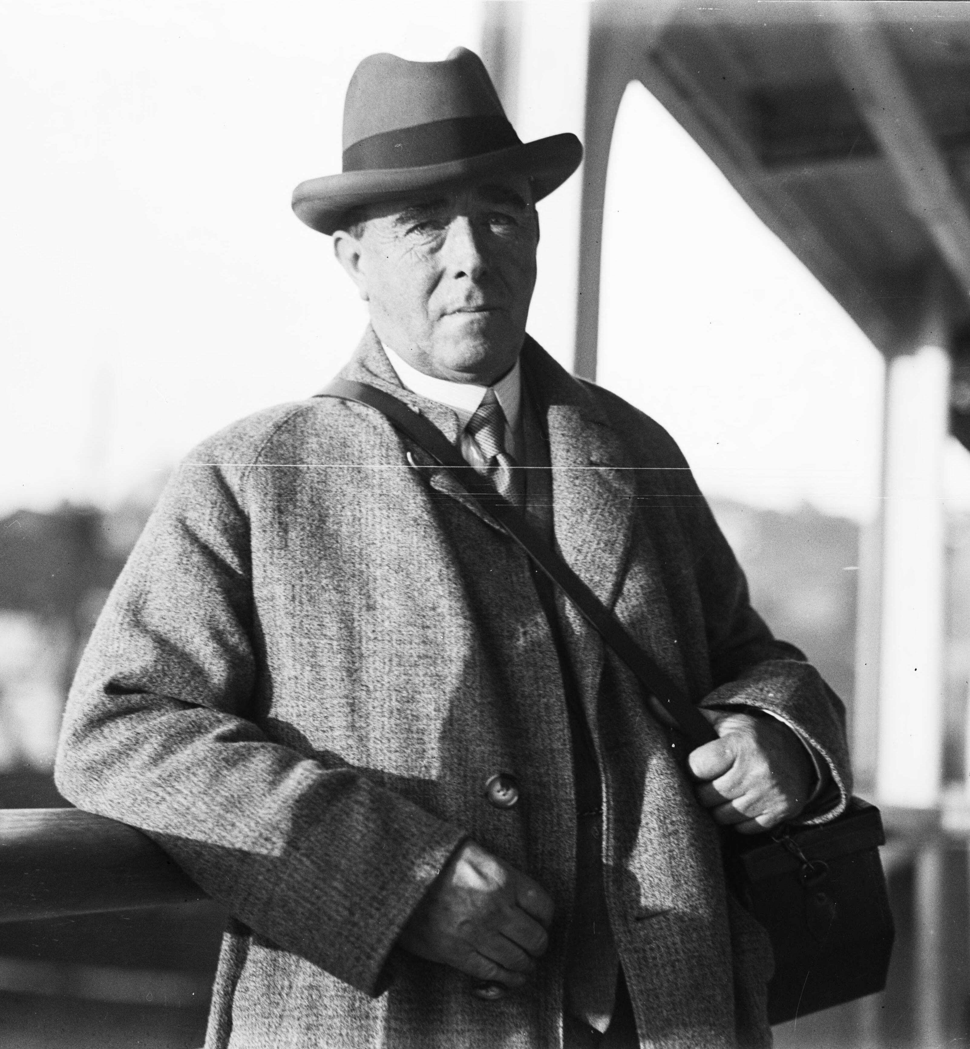 Australian politician Stanley Argyle